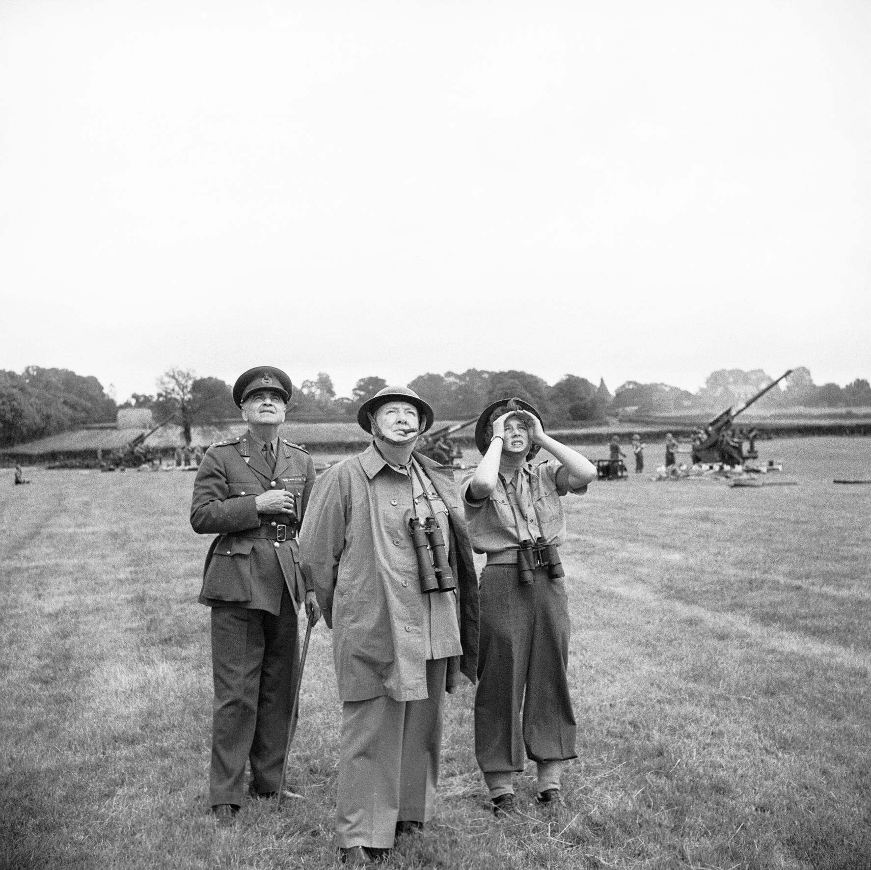 Winston Churchill with his daughter Mary and General Sir Frederick Pile (GOC Anti-Aircraft Command) watch anti-aircraft guns in action against V1 flying bombs, 30 June 1944. Winston Churchill, his daughter, Mary, and General Sir Frederick Pile (GOC Anti-Aircraft Command) watch a demonstration of measures used to combat flying bombs in the south of England on 30 June 1944.